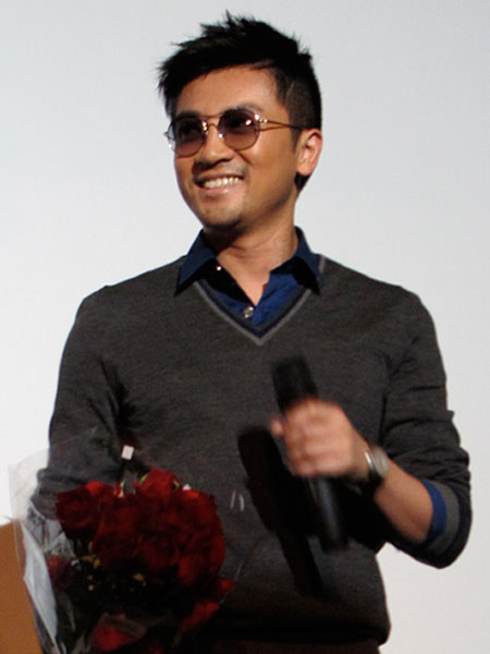 Alec Su at the 1st New York Chinese Film Festival, September 19, 2010 Bân-lâm-gú: 2010-nî 9-gue̍h 19, Soo Iú-pîng tī tē-it-kài Liú-iok Tiong-kok tiān-iánn-tsiat. 2010年9月19，蘇有朋佇第一屆紐約中國電影節.